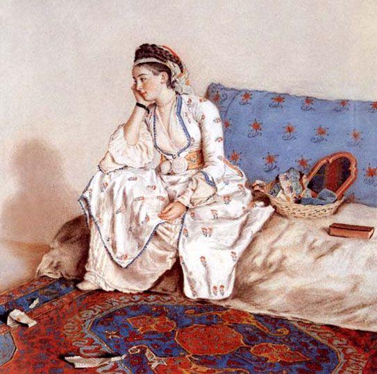 also titled Portrait of a pensive woman on a sofa and Portrait of a young woman in Turkish costume sitting on a couch